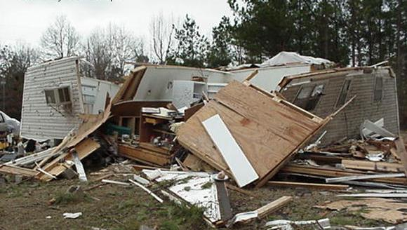 An example of F2 tornado damage. (Damage Scale)